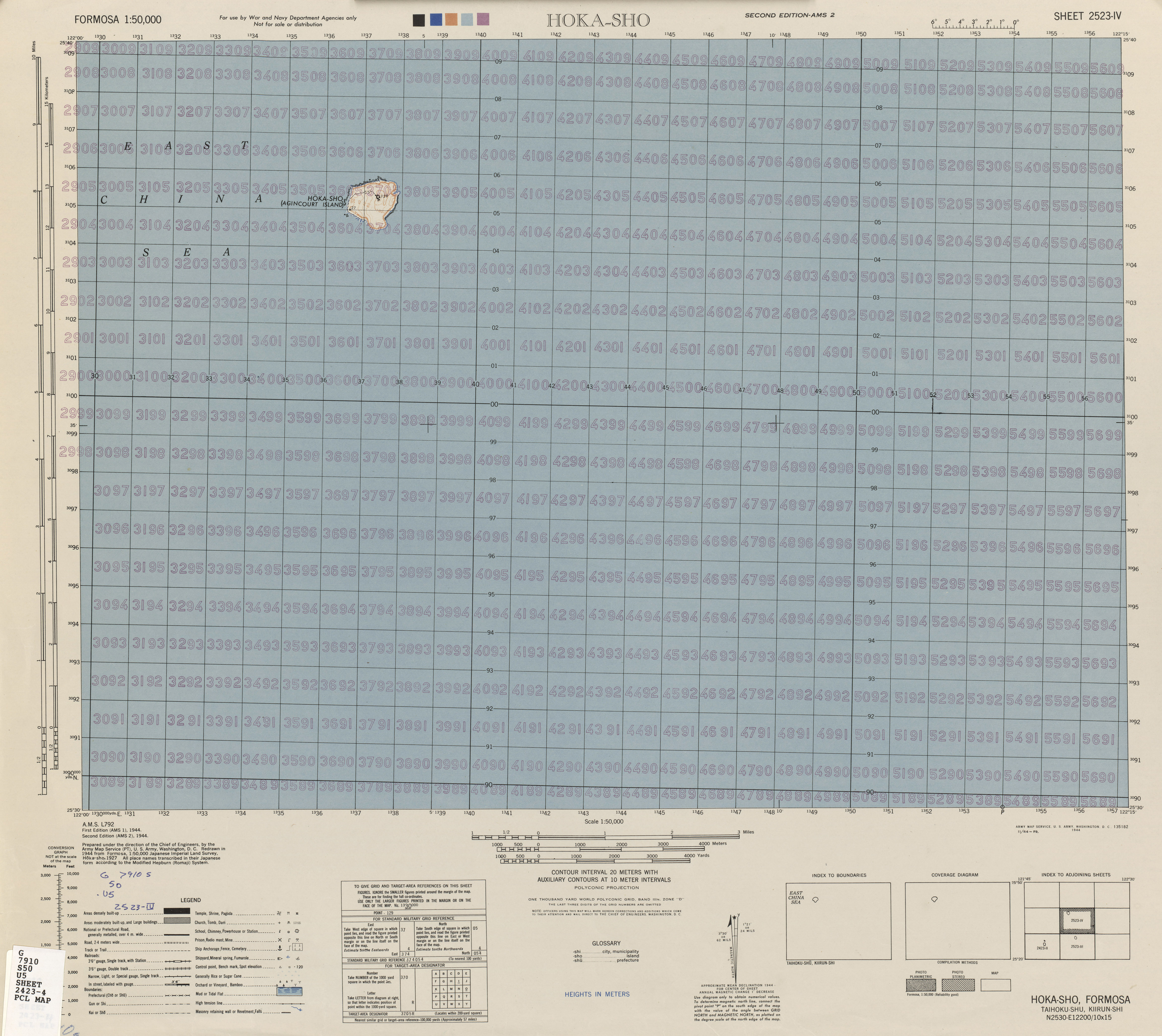 Map of Pengjia Islet (Hōka-sho, Agincourt Island), Zhongzheng, Keelung, Taiwan from Formosa (Taiwan) 1:50,000 AMS Series L792